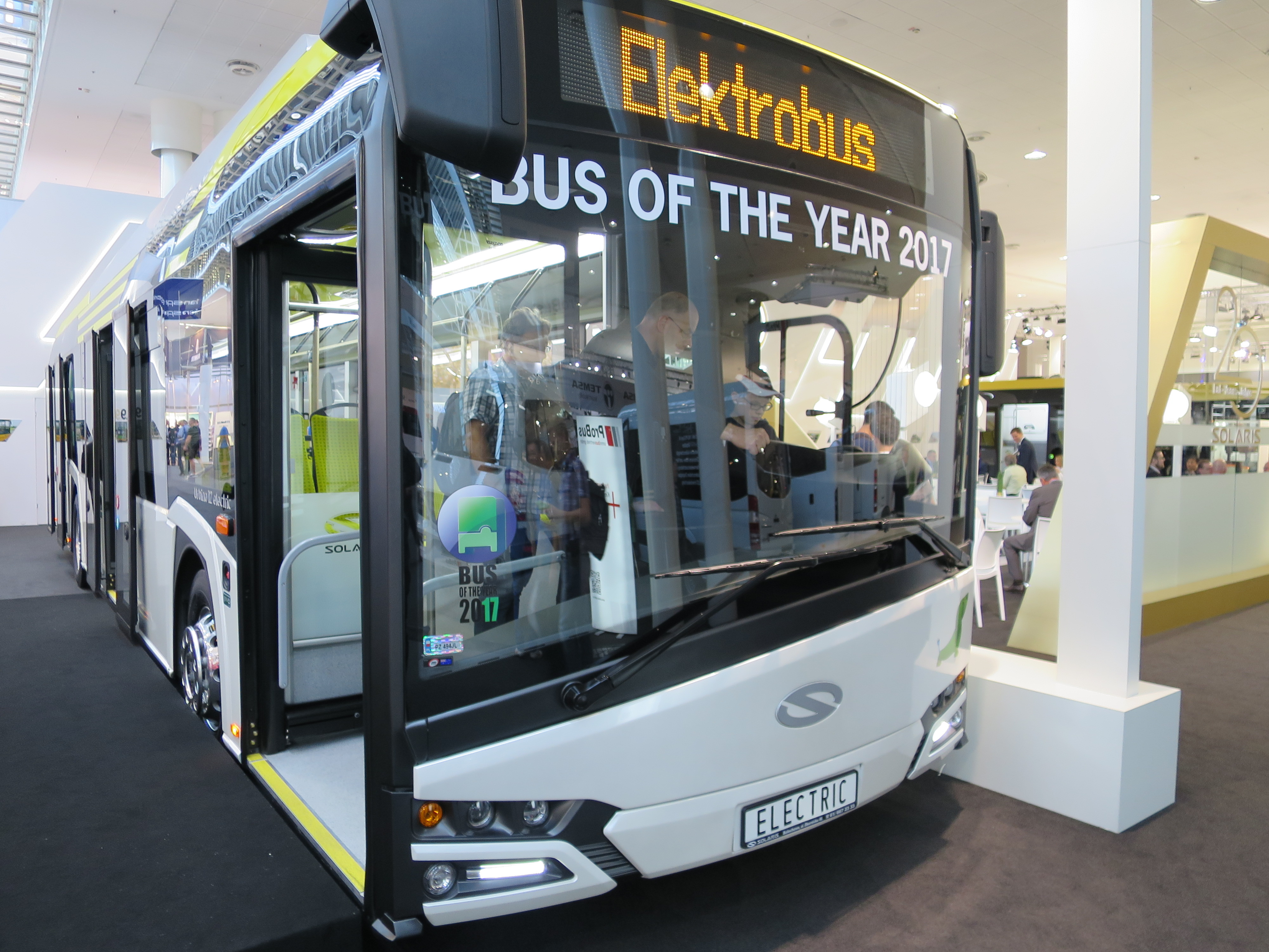 The making of this document was supported by Wikimedia Polska Association, within Wikigrant no. WG 2016-35. Solaris Urbino 12 electric